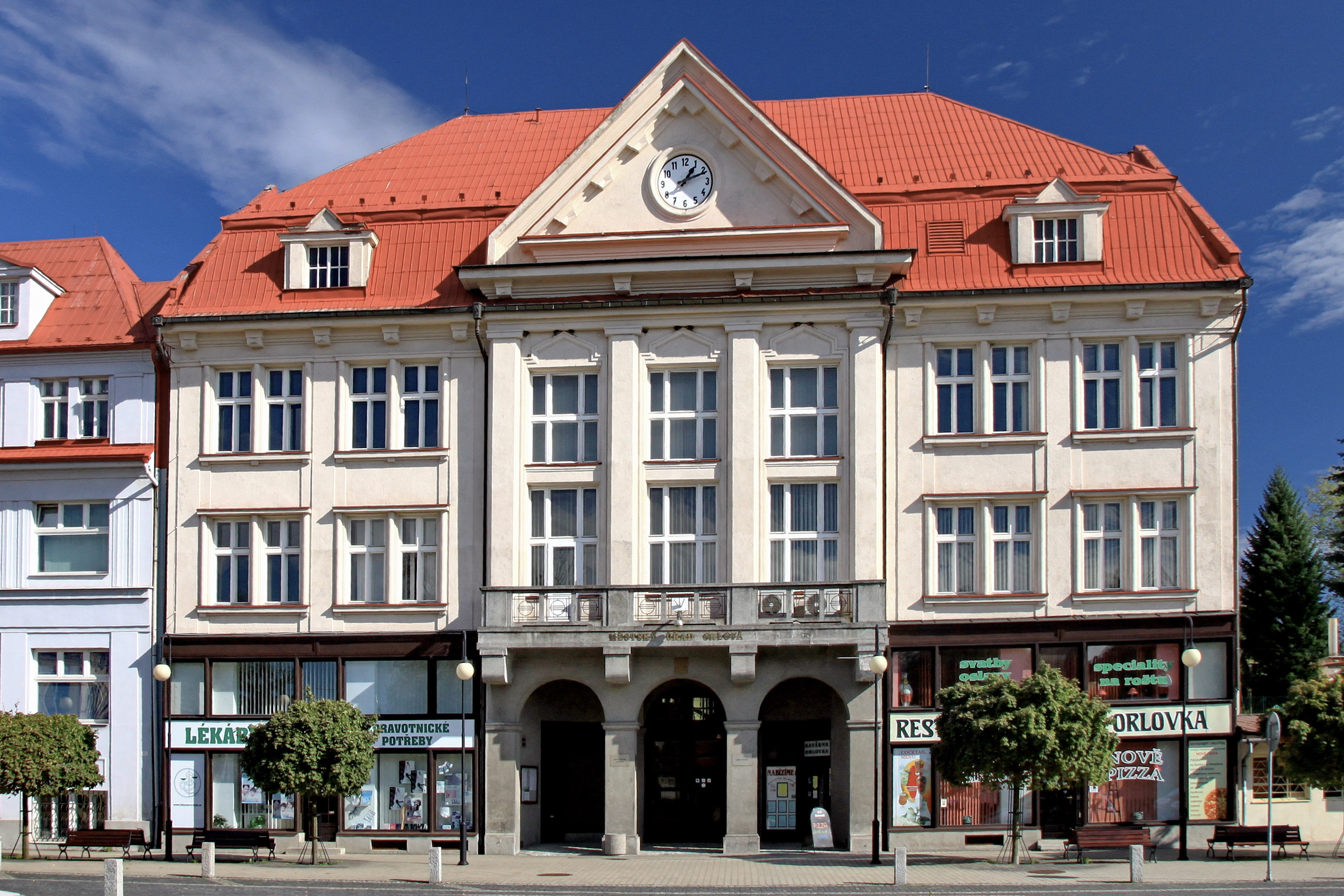 Town hall, náměstí 76, Orlová. Moravian-Silesian Region, Czech Republic.